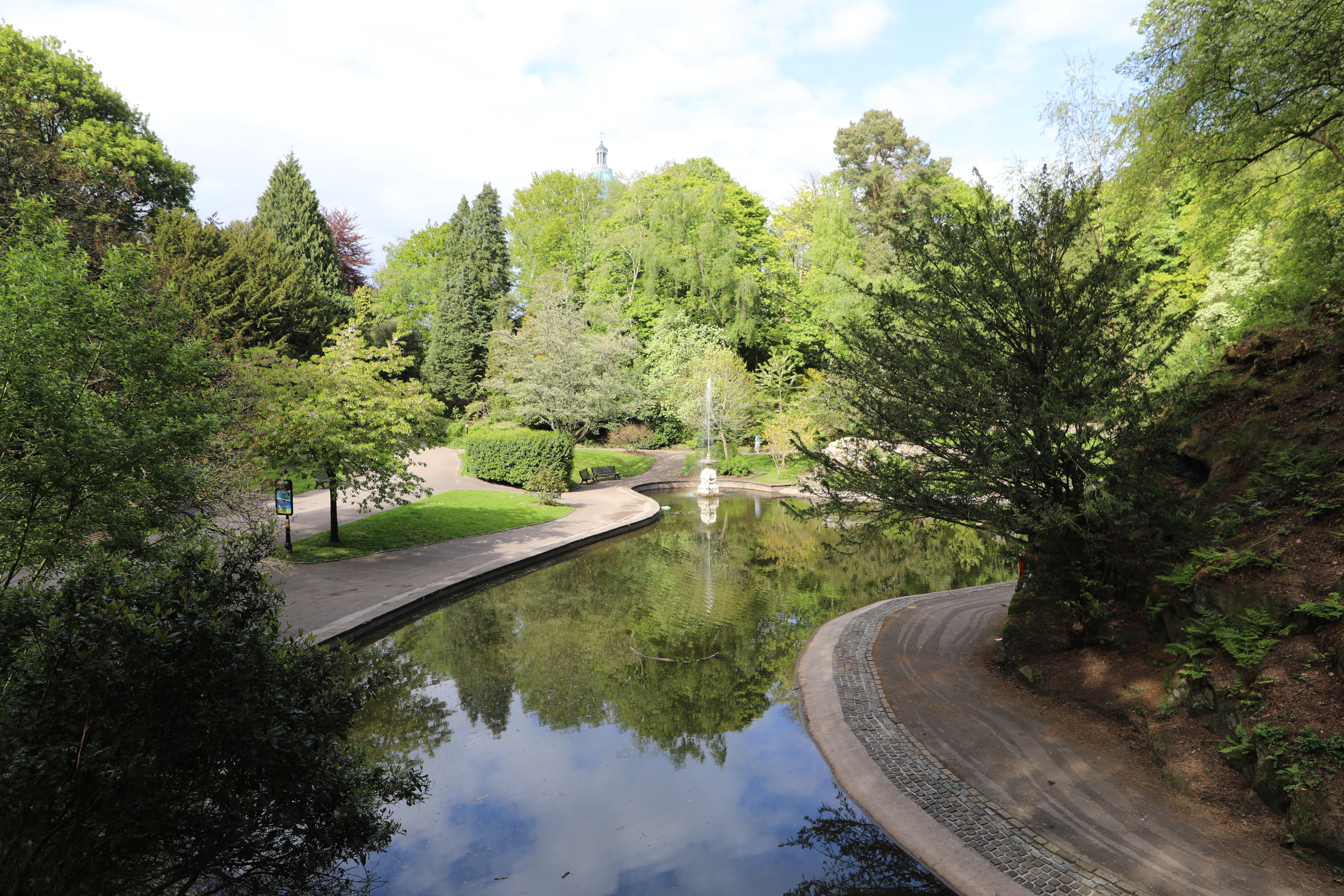 Photo of the lake and fountain from the bridge over the lake in Williamson Park